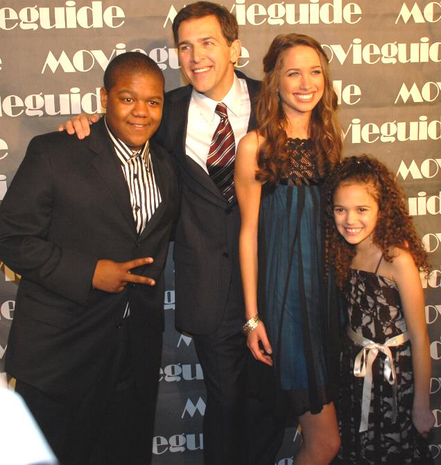 Actors Kyle Massey, John D'Aquino, Maiara Walsh and Madison Pettis.